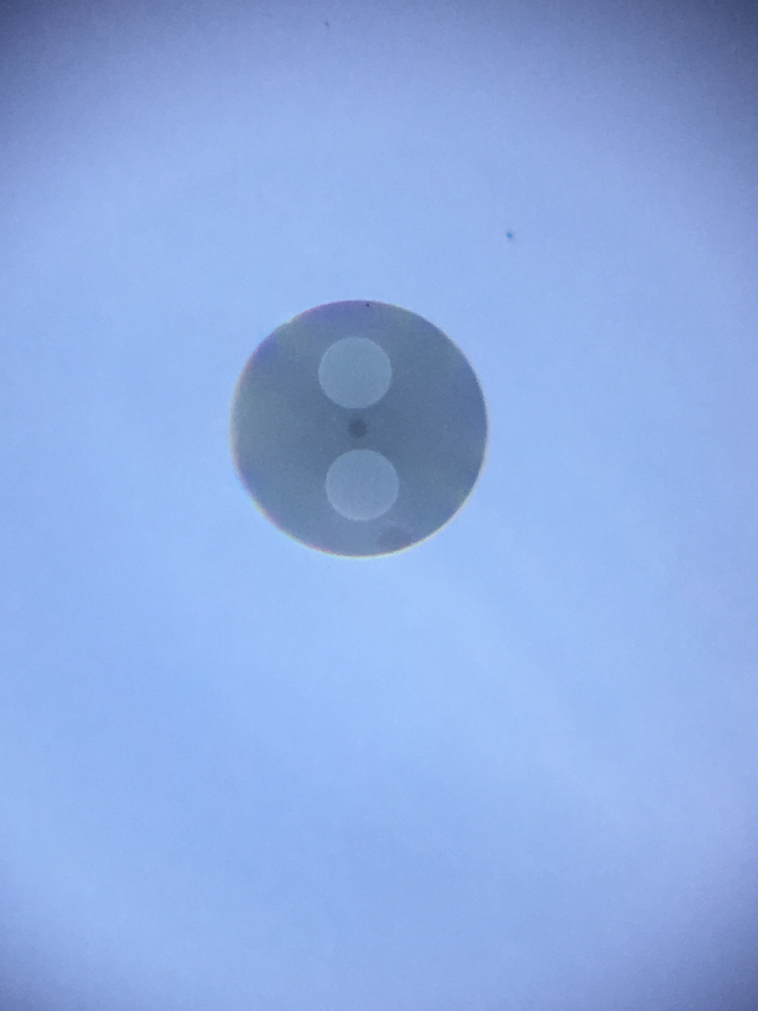 Cross section of a polarization-maintaining optical fiber patch cord end, viewed through a fiberscope, (i.e. an illuminated microscope for viewing the ends of fibers.) The small, eye-like circles around the central core are stress rods to create birefringence in the fiber and maintain polarization. The large dark circle surrounding them is about 125 microns in diameter. This is a higher resolution zoomed in image.